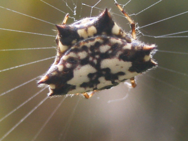 Gasteracantha kuhli (black-and-white spiny orbweaver)